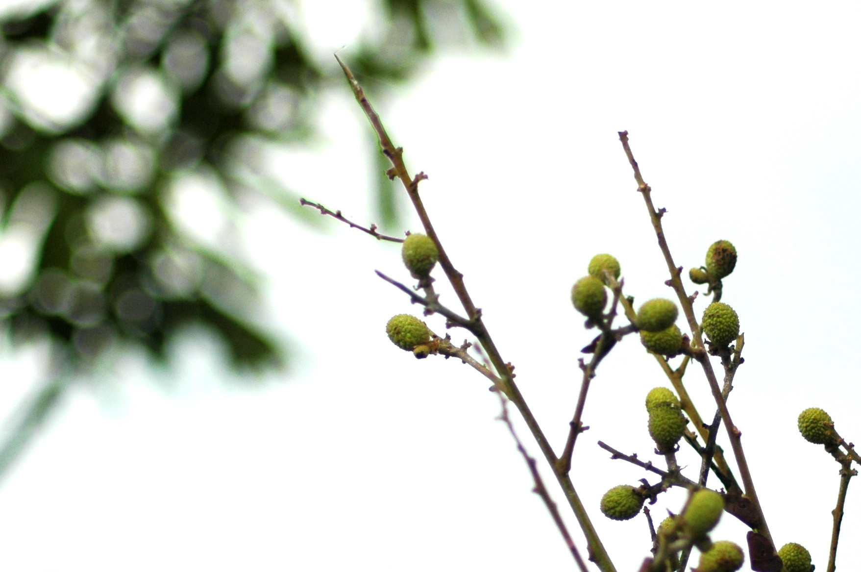 Unripe longan fruit. (June 2011)